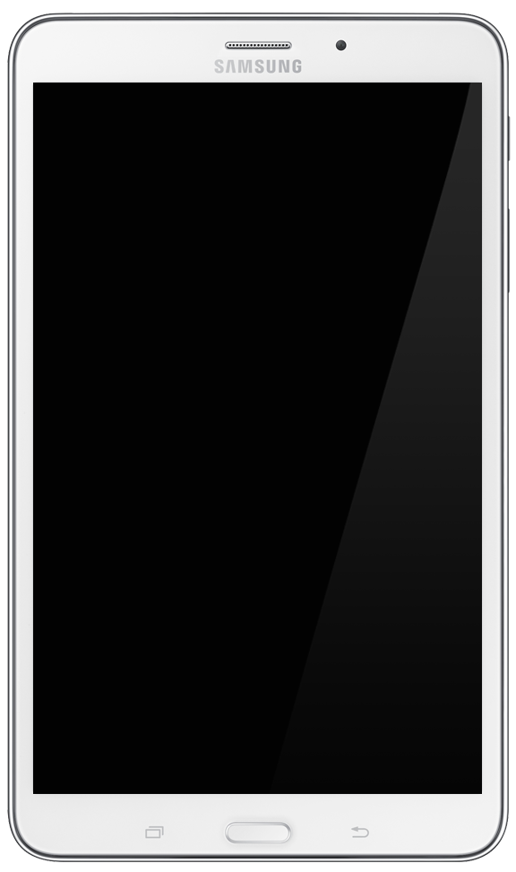 Samsung Galaxy Tab 4 8.0 render